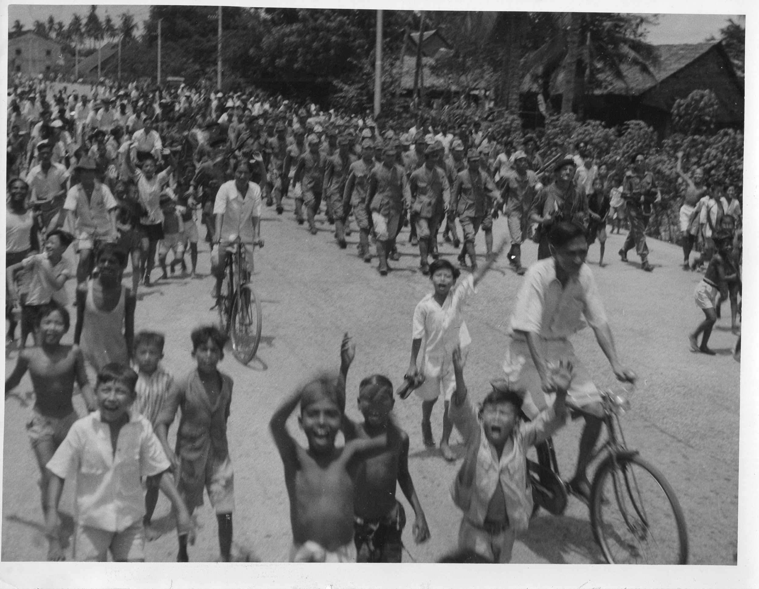 REOCCUPATION OF PENANG Allied Forces liberated Penang at the end of August. Jap surrender party signed off the war aboard HMS Nelson lying off Georgetown. Disarmed Jap troops march through crowds to prison camp. SPU/794 Sept '45 - INTERSERVICES PUBLIC RELATIONS DIRECTORATE (INDIA)